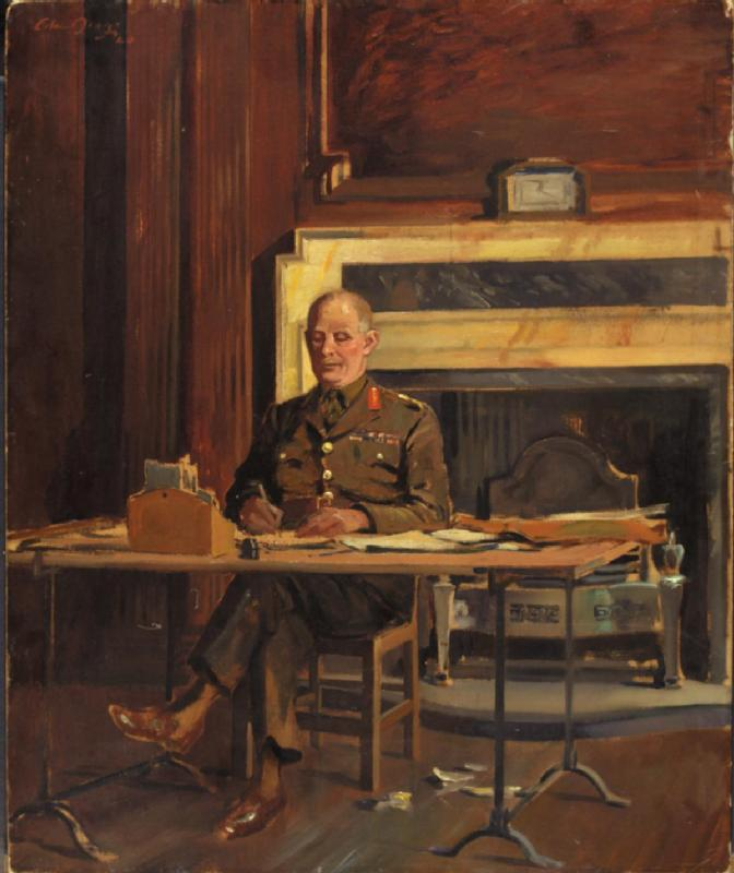 General Lord Gort, Vc - at the Headquarters of the British Expeditionary Force, 1940 image: A portrait of Gort, wearing uniform, sitting and writing at his desk in his office at BEF Headquarters. Behind him is a large fireplace with a clock on the mantelpiece and wood panelling on the walls.